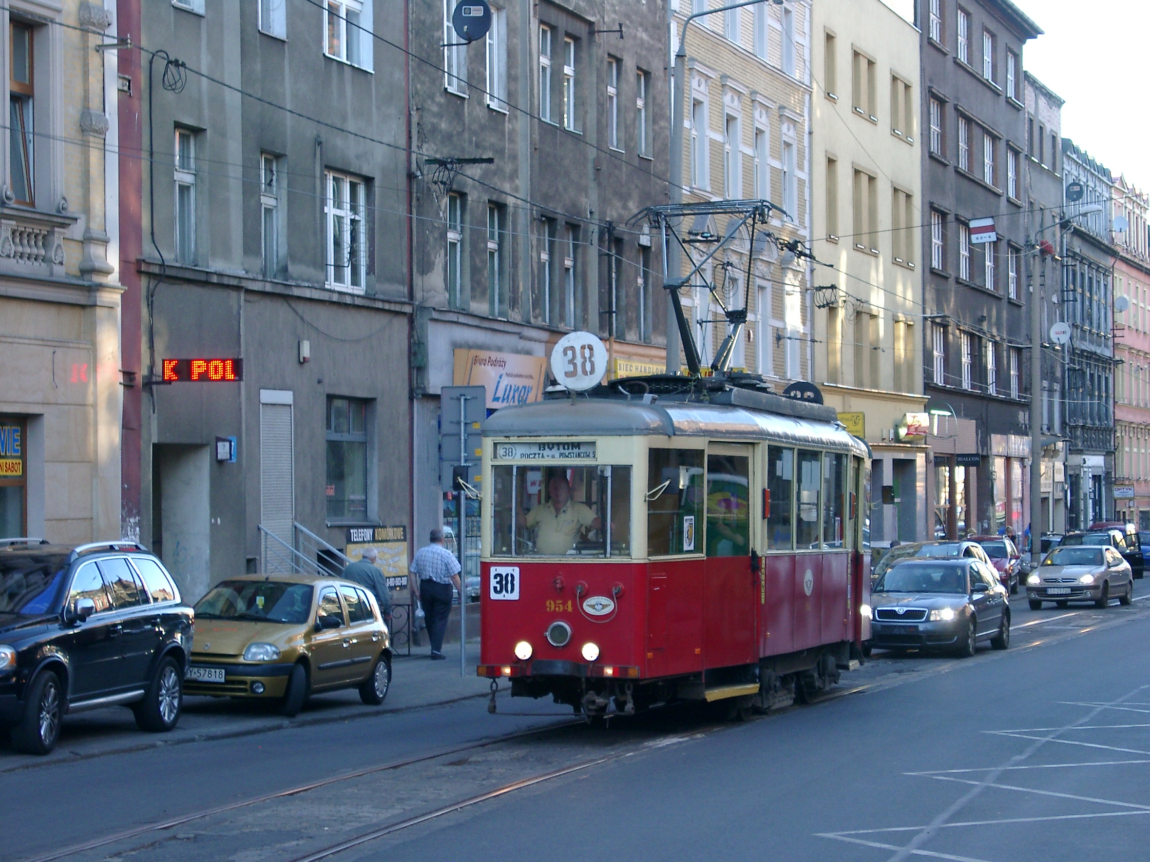 Bytom Tramway Line 38